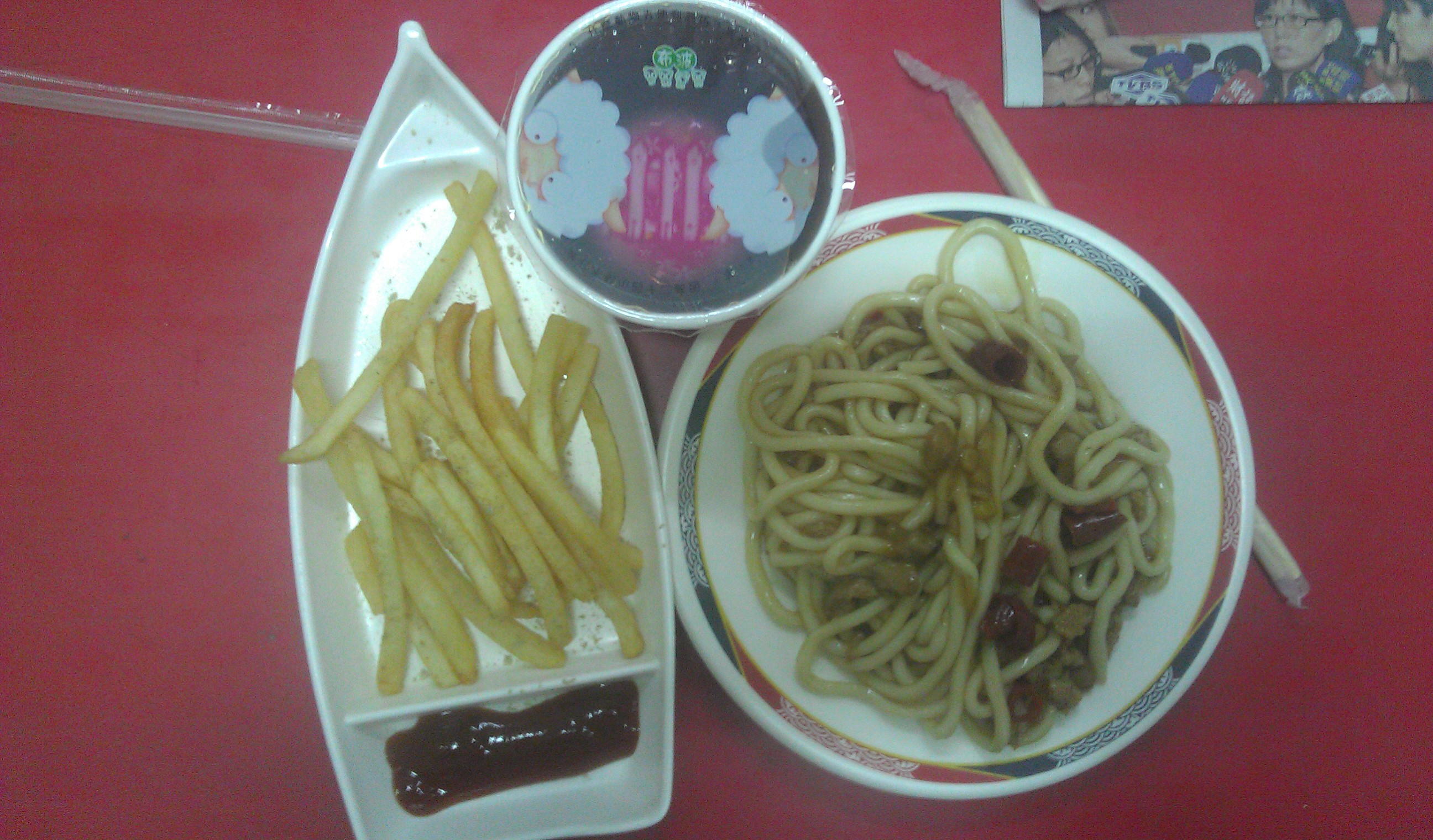 breakfast sold in taiwan, left: french fries right: Kung Pao chicken noodles Mid: black tea